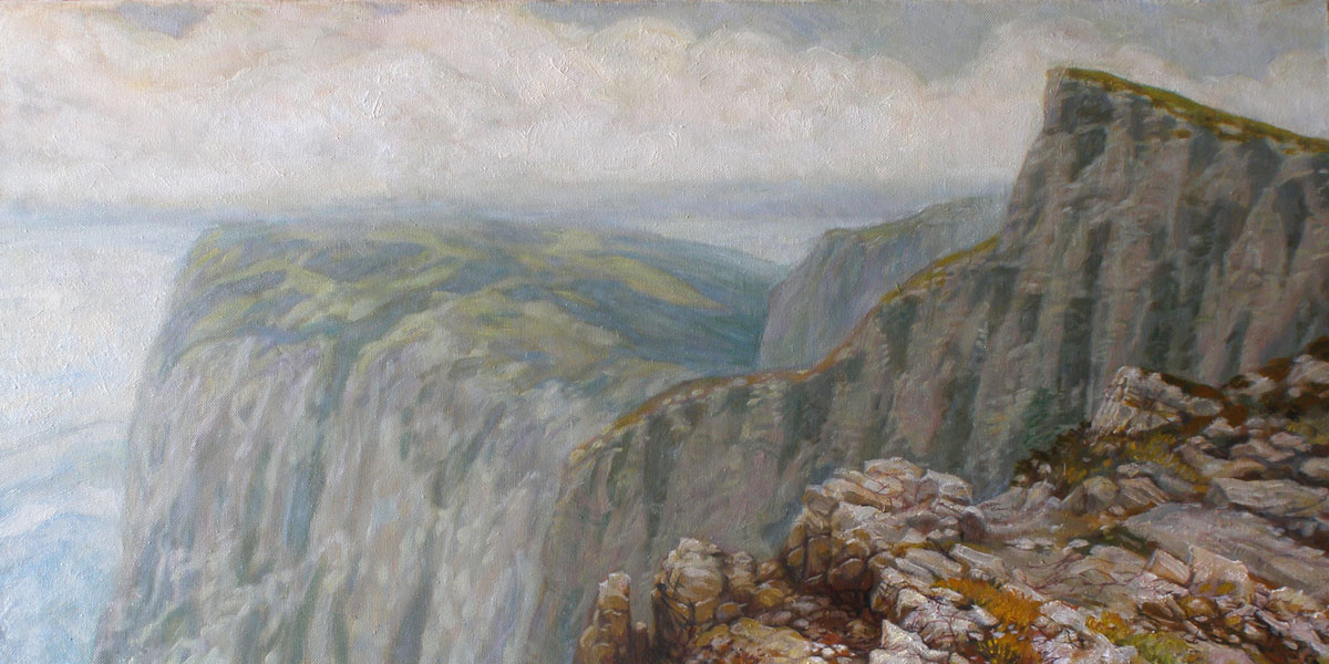 Cliffs of Theodoro